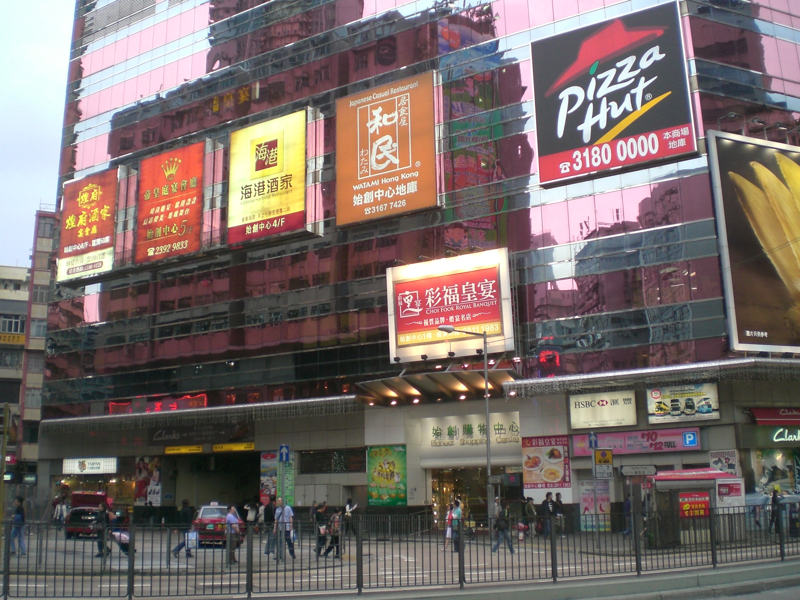 旺角 彌敦道 水渠道 始創中心